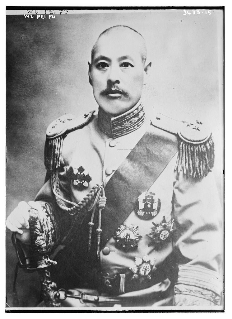 Wu Peifu circa 1915